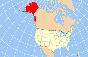 Map of USA with Alaska highlighted and shown in true position